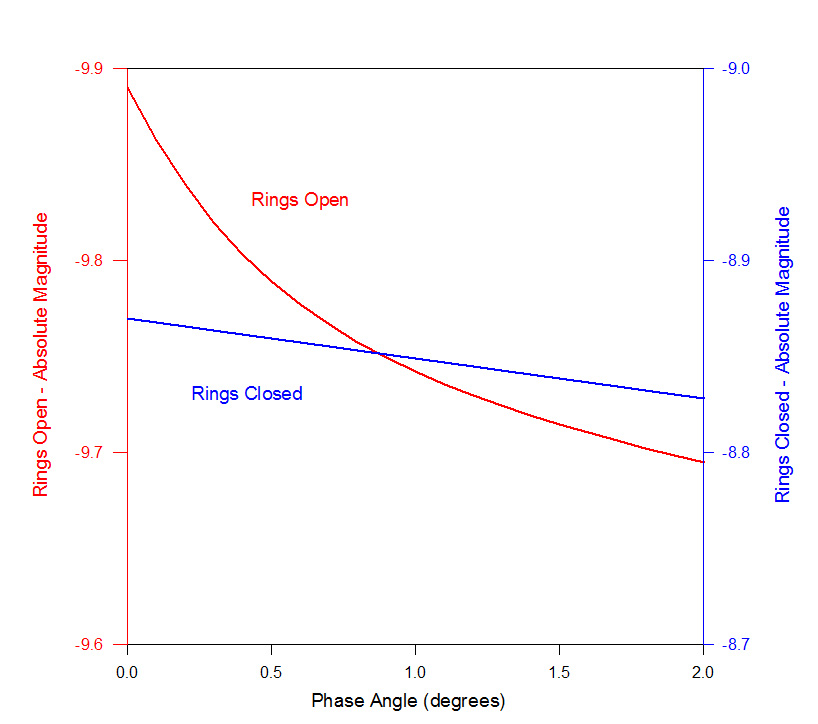 Saturn phase curve - improved.